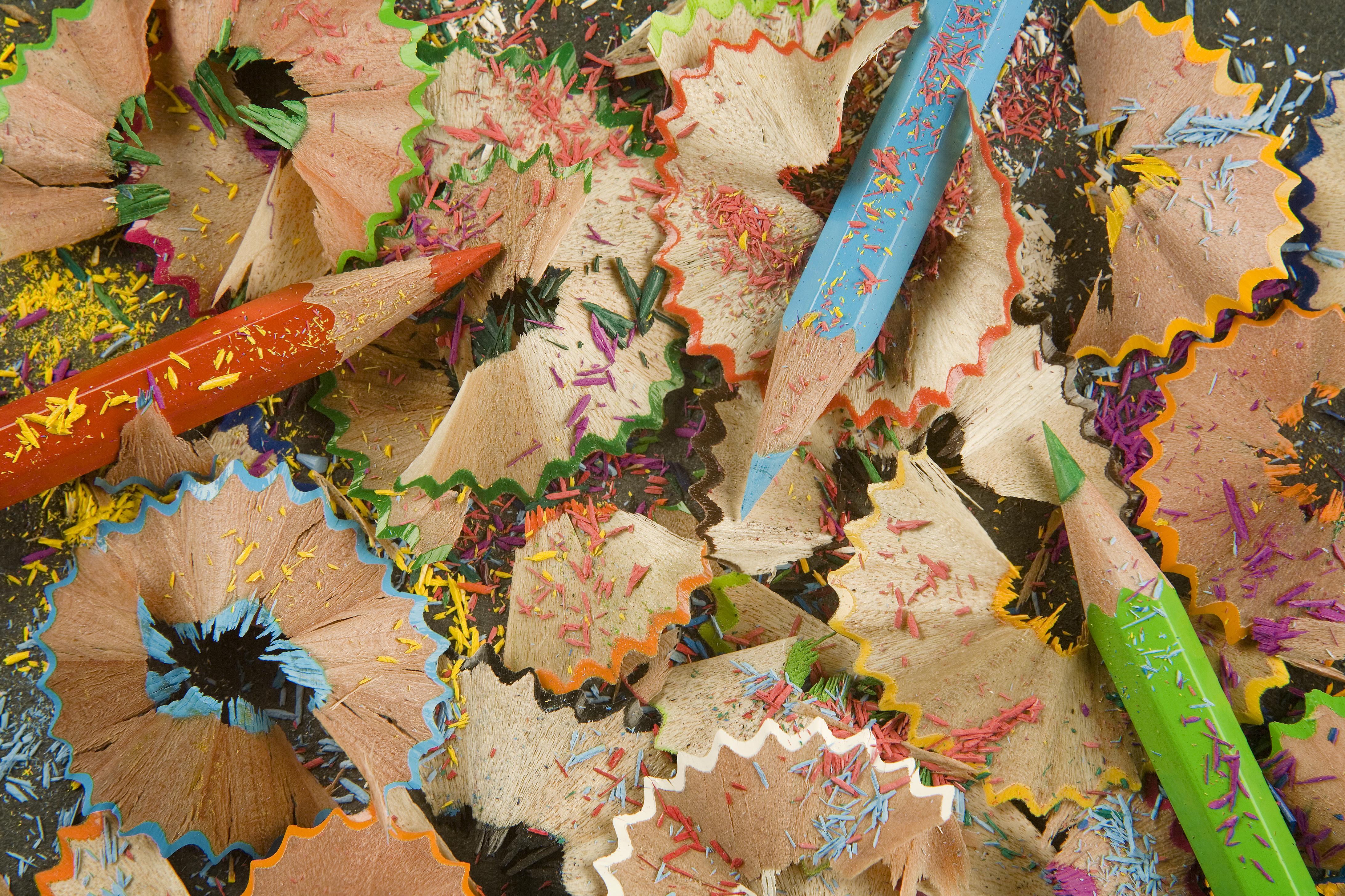 Colored pencil scrapings